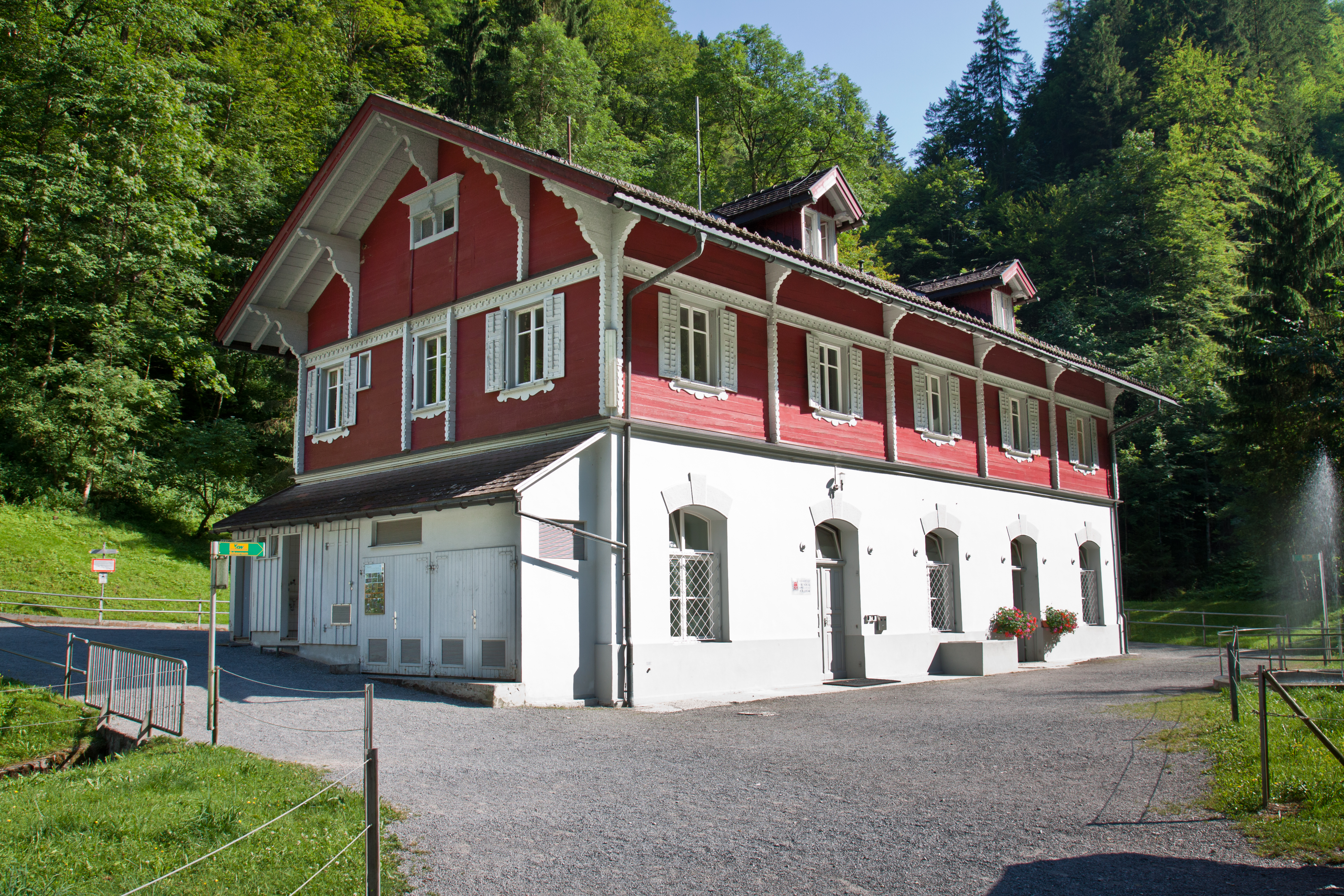 Run-of-the-river hydroelectric power plant "Ebensand" next to the Staufensee in Dornbirn/Austria